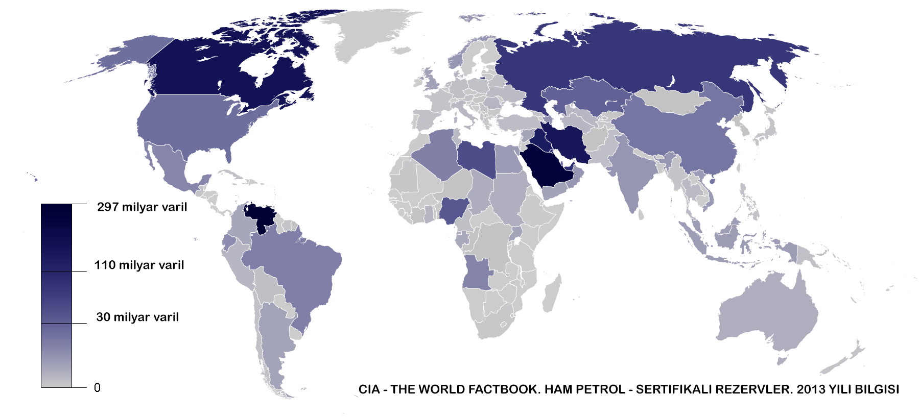 Oil - proved reserves.